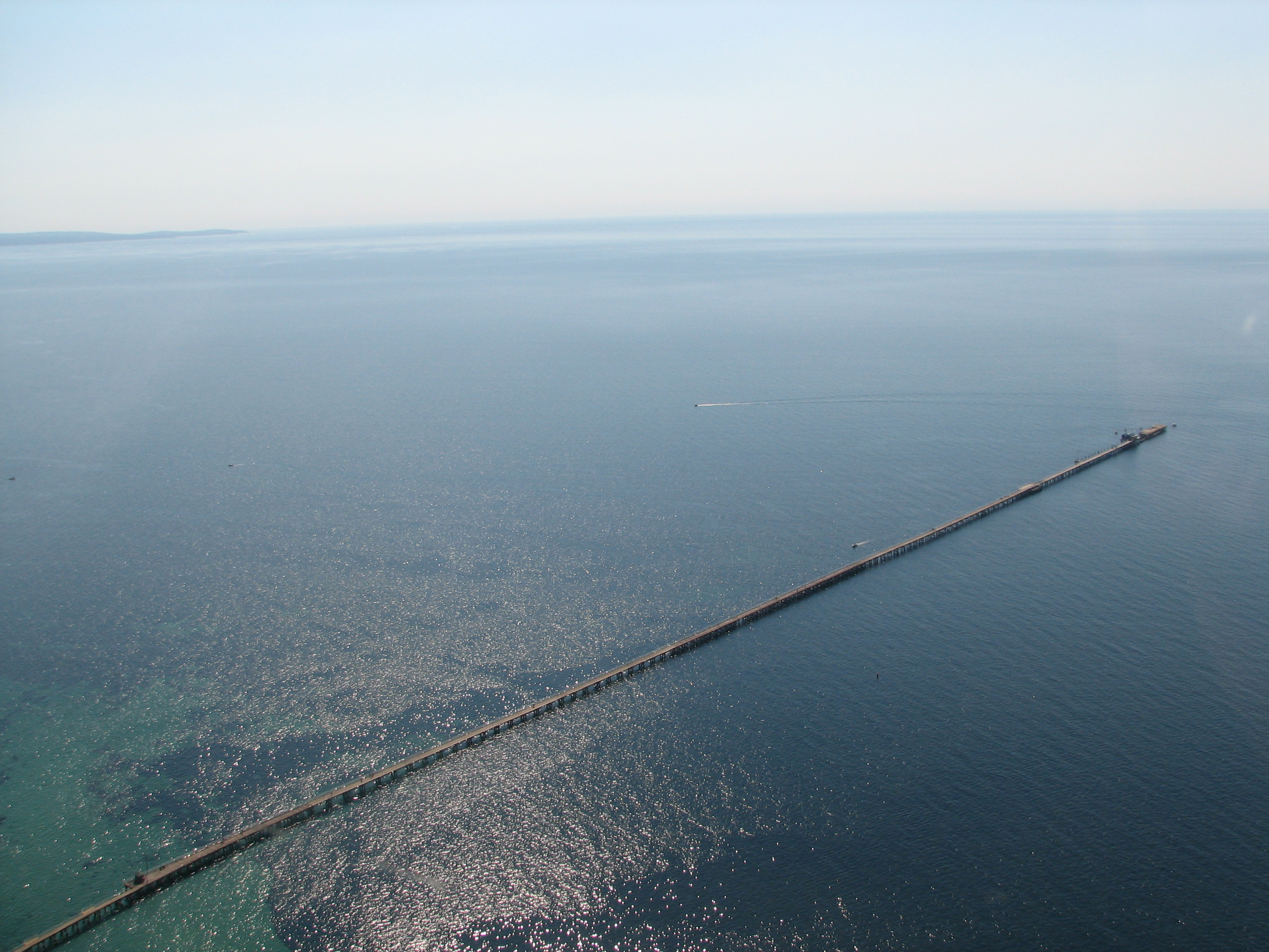 Taken by Michael Hossen. Releases image(must credit author)